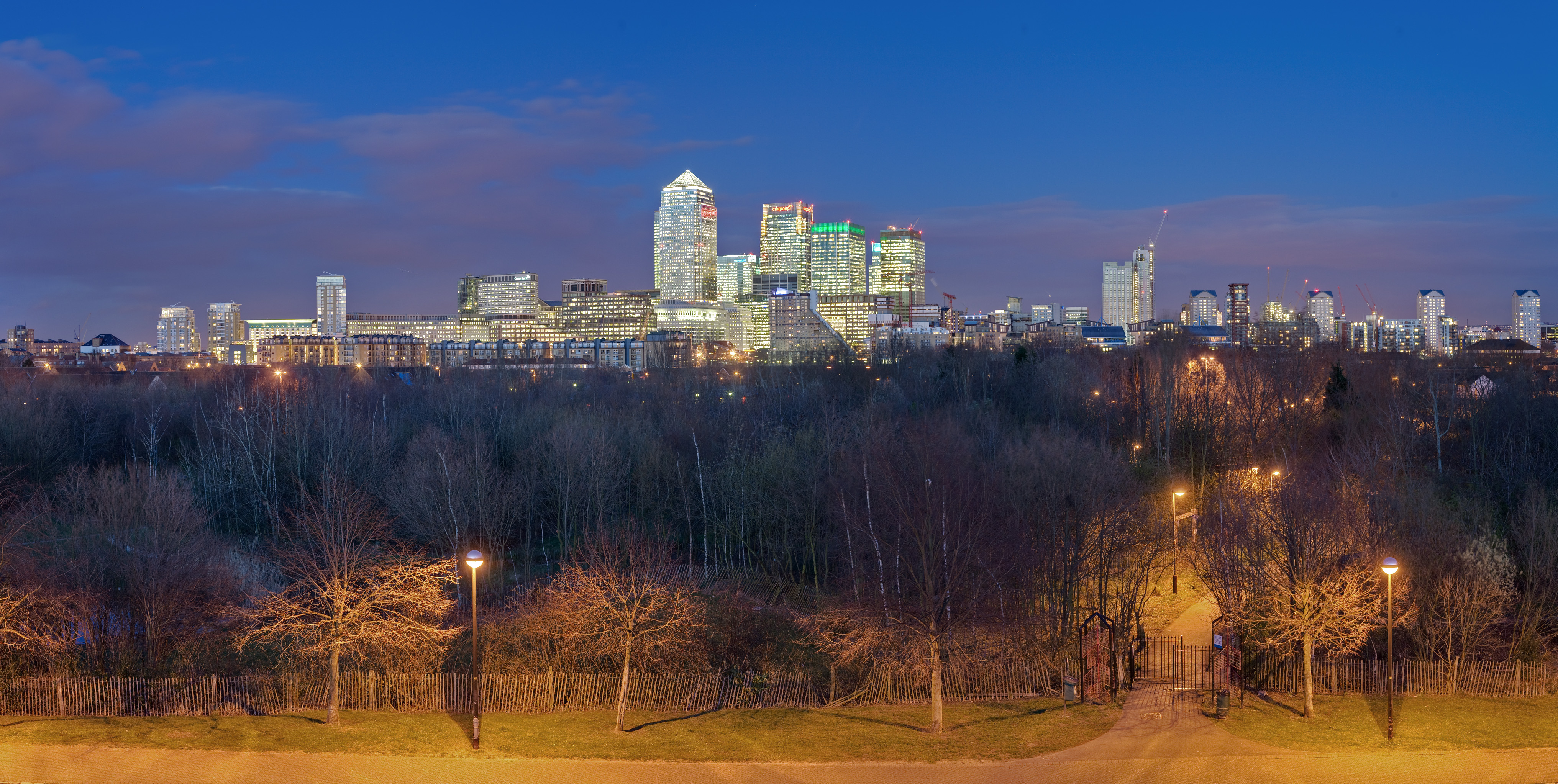 A panoramic view of the Stave Hill Ecological Park in Rotherhithe, London. In the background is Canary Wharf and Isle of Dogs.